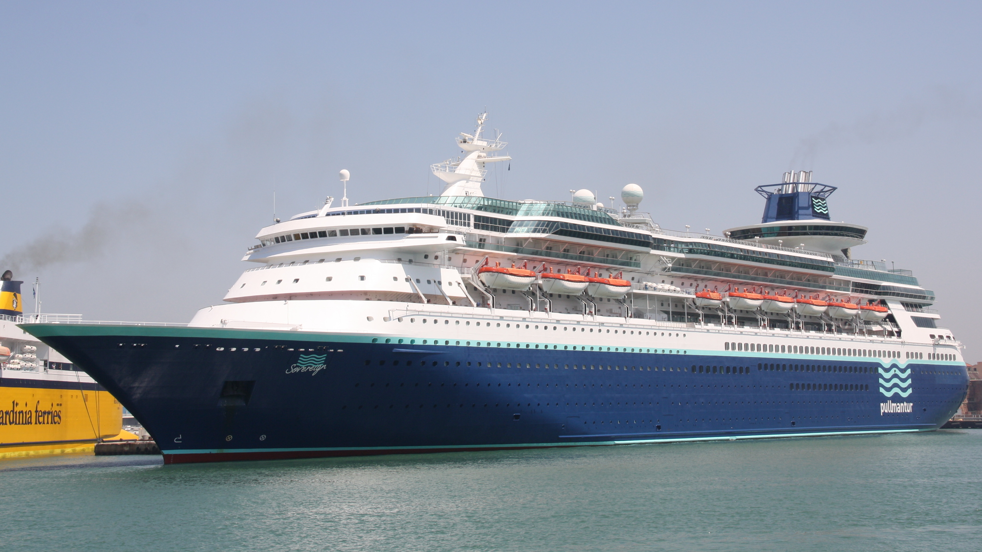 Shipowner: Pullmantur Cruises, Madrid, Spain IMO: 8512281 MMSI: 249539000 Call sign: 9HUE9 Type: Cruise ship Builder: Chantiers de l’Atlantique, Saint-Nazaire, France Yard number: A29 Keel laid: June 10, 1986 Launch date: April 4, 1987 Completion date: January 16, 1988 Port of registry: Valletta Gross tonnage: 73,529 t Net tonnage: 45,194 t DWT: 7,546 t Length overall: 268.32 m Breadth: 36.00 m Draught: 7.82 m Main engine: 4 x Pielstick-Alsthom 9 cyl diesel engines Engine power: 20,476 kW Speed: 21 knots Passengers: 2,852 Crews: 825